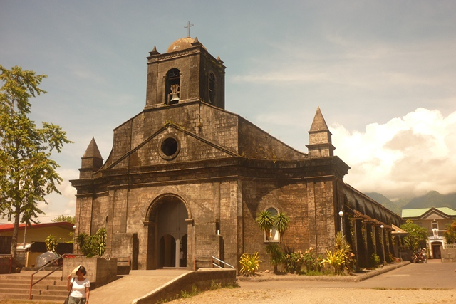 Church of the parish of Tiwi. Photo courtesy of John P. Arcilla